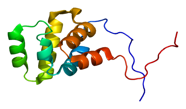 Structure of the THOC1 protein. Based on PyMOL rendering of PDB 1wxp.